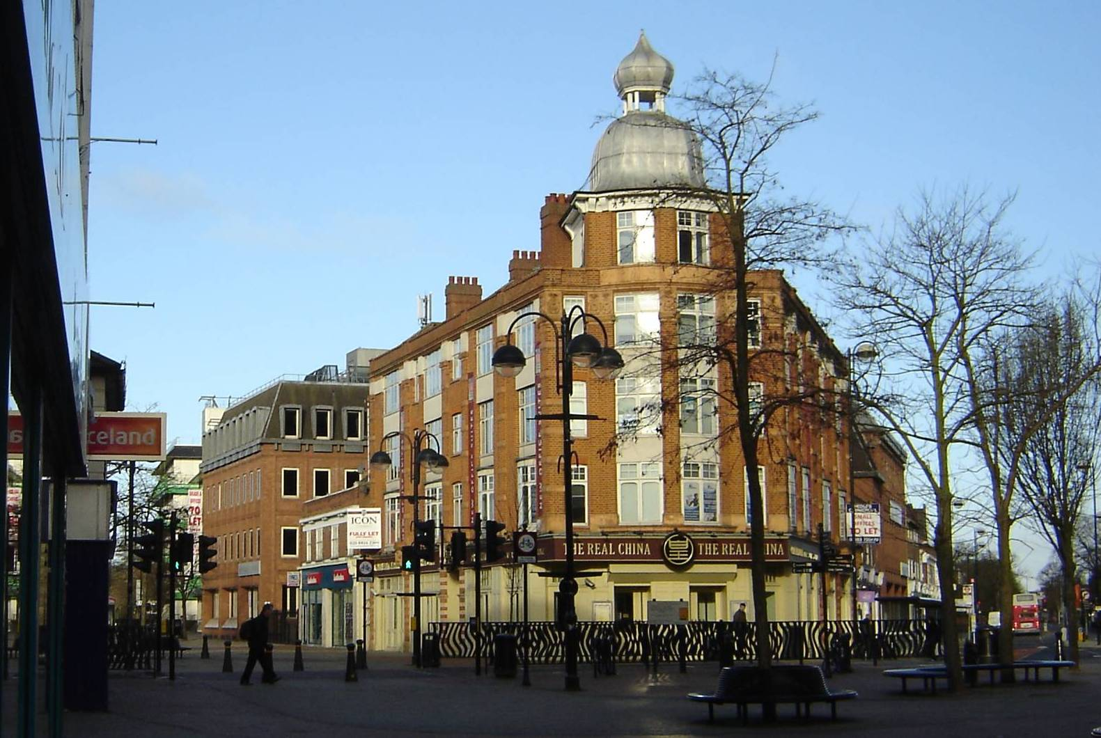 Building on junction of Bell Road and Hounslow High Street now an "eat as much as you like" Chinese restaurant